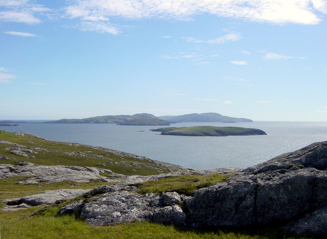 View south from Vatersay (Bhatarsaigh) in the Outer Hebrides of Scotland. Flodaigh, Lingeigh, Pabaigh and Mingulay (Miughlaigh) can be seen. All are now uninhabited, although Mingulay can be visited from Barra.